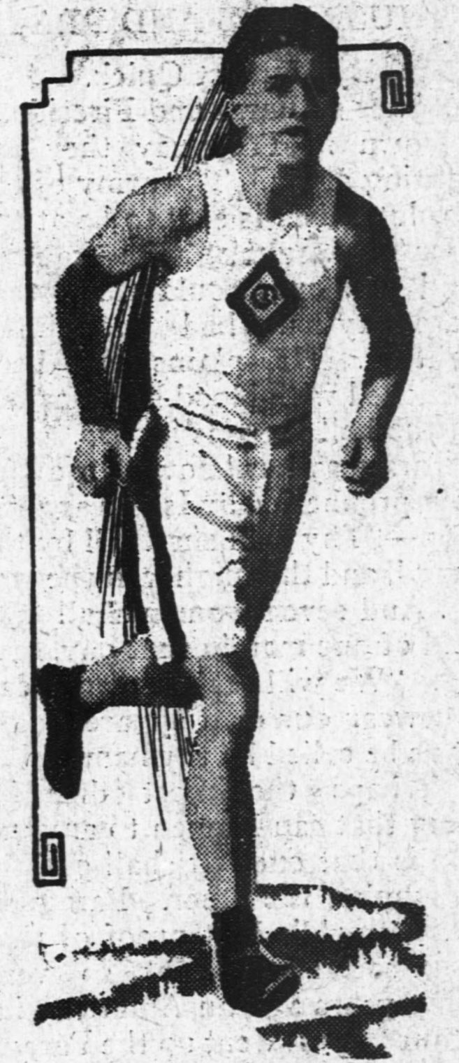 Sidney Hatch in 1911.